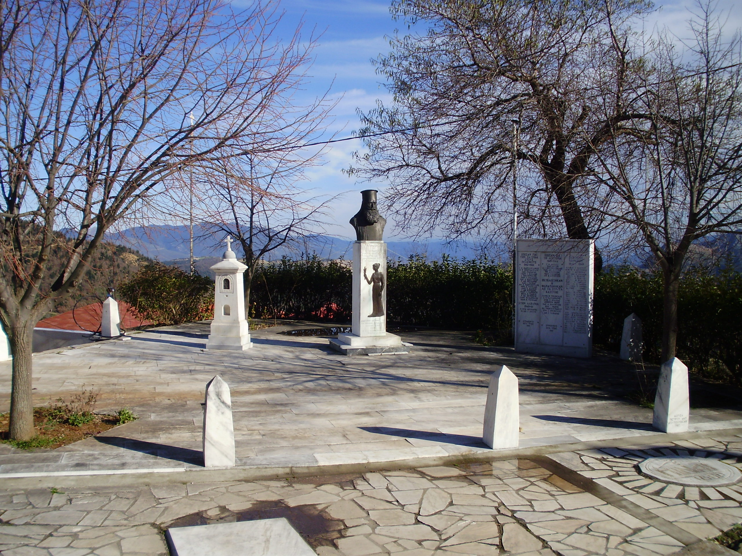 Kaloskopi, Papantrias statue